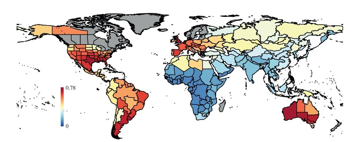 Percent of megafauna alet-quarternary extinction